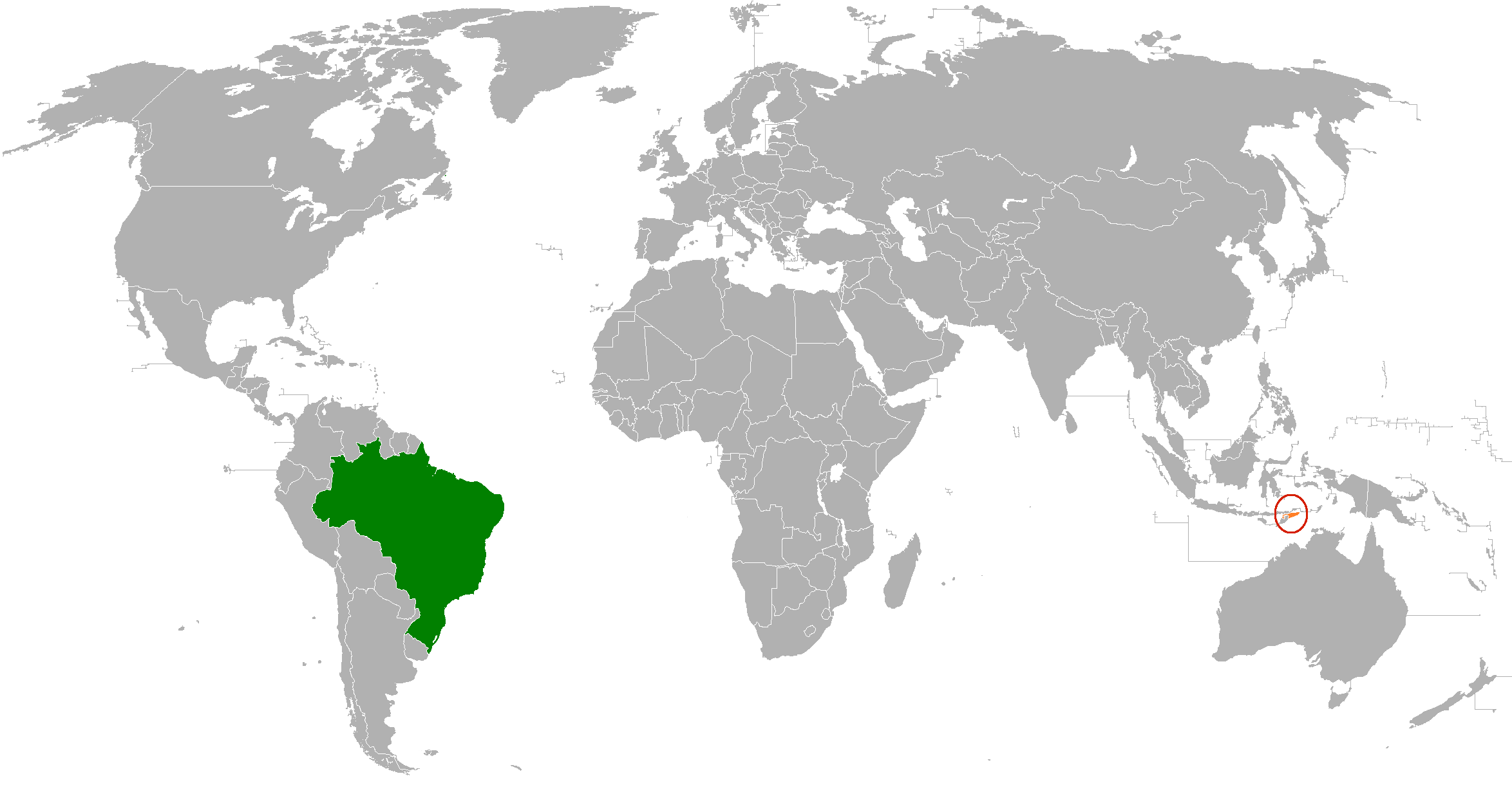 World map: Brazil-East Timor (location)